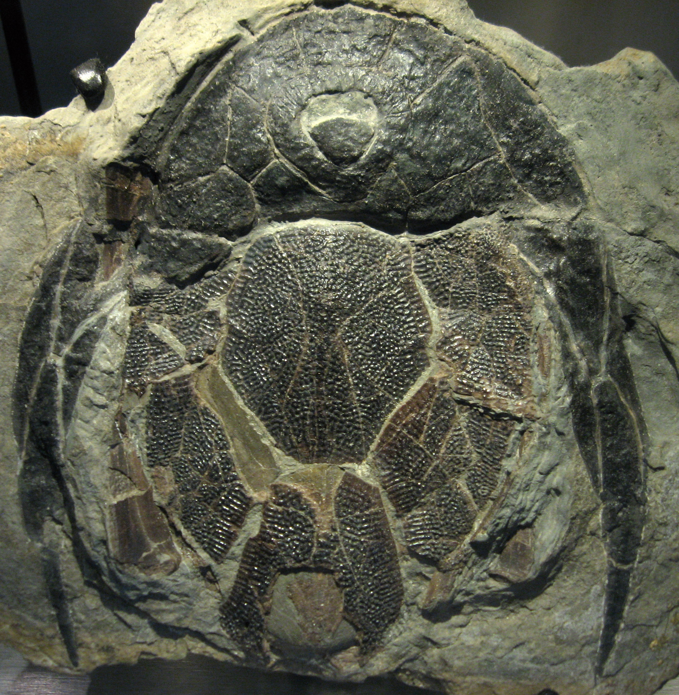 The fossilized head and fin plates of the extinct Bothriolepis canadensis. ~370 million years old. Scaumenac Bay, Quebec, Canada. Photographed at Dinoday 2009.